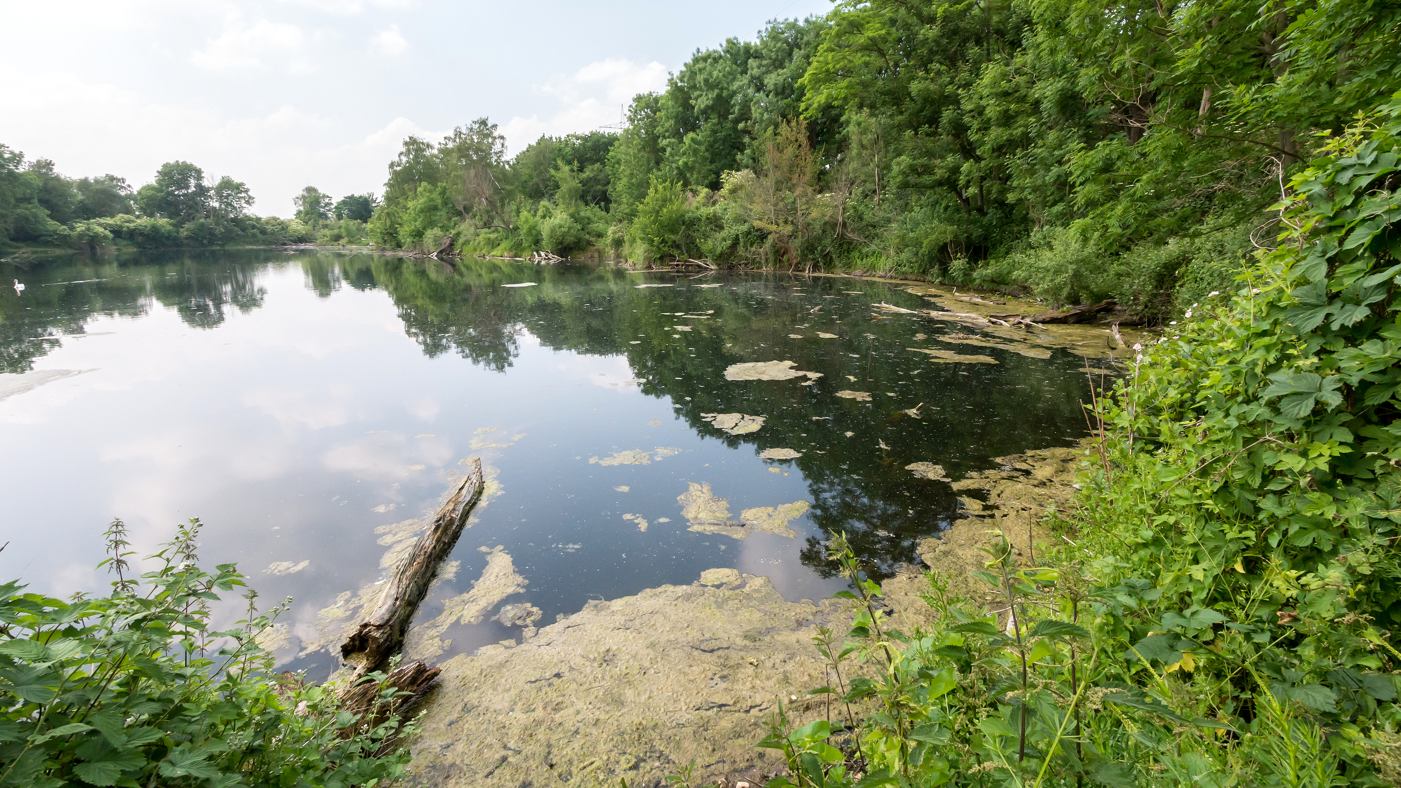 NSG Pellini-Weiher FFH-Gebiet Indemündung I